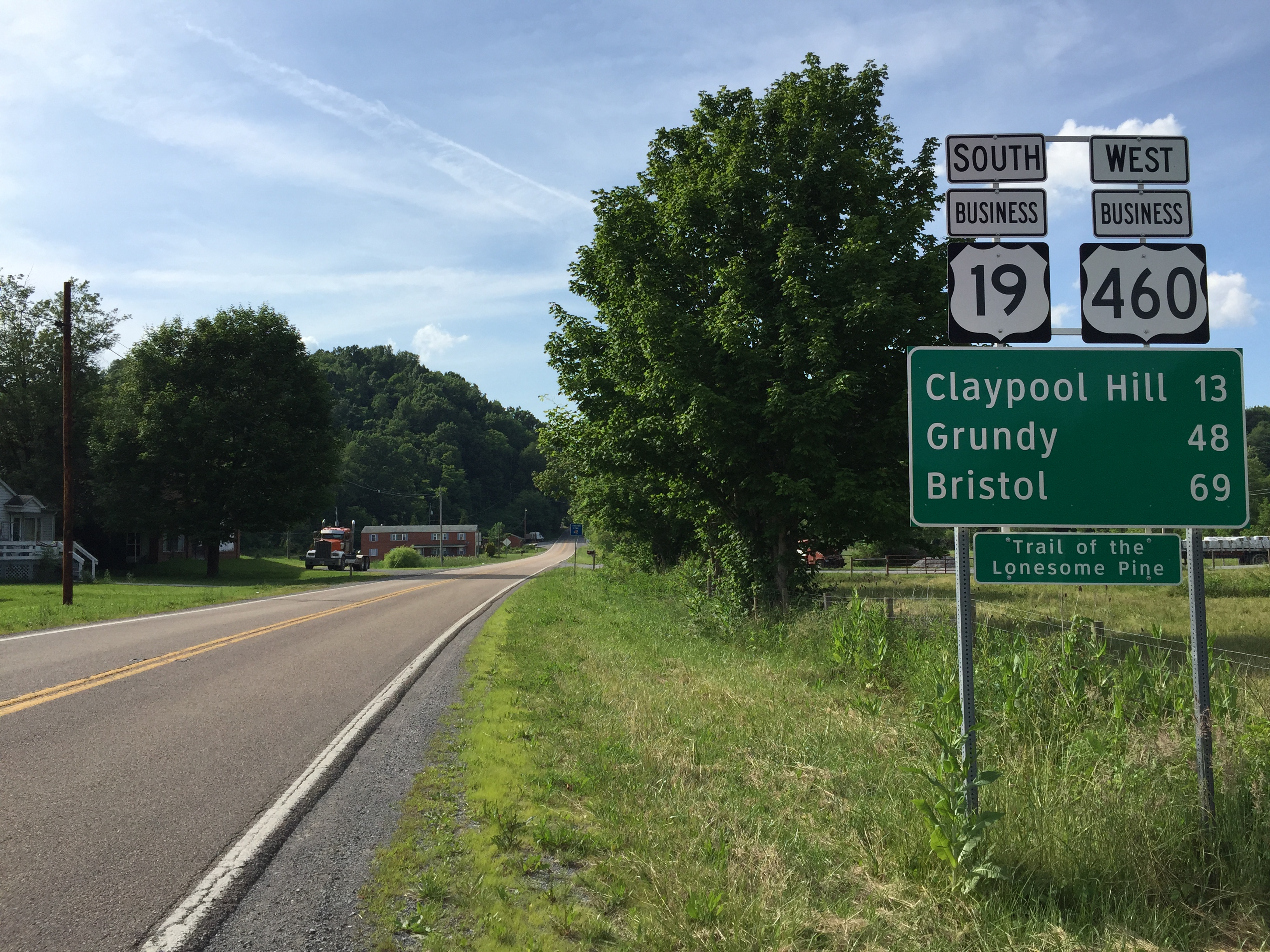 View south along U.S. Route 19 Business and west along U.S. Route 460 Business (Main Street) at Virginia State Route 91 (Wittens Valley Road) in Frog Level, Tazewell County, Virginia